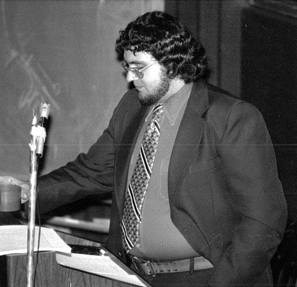 Kenneth Gregg Jr. photo by Lawrence Samuels